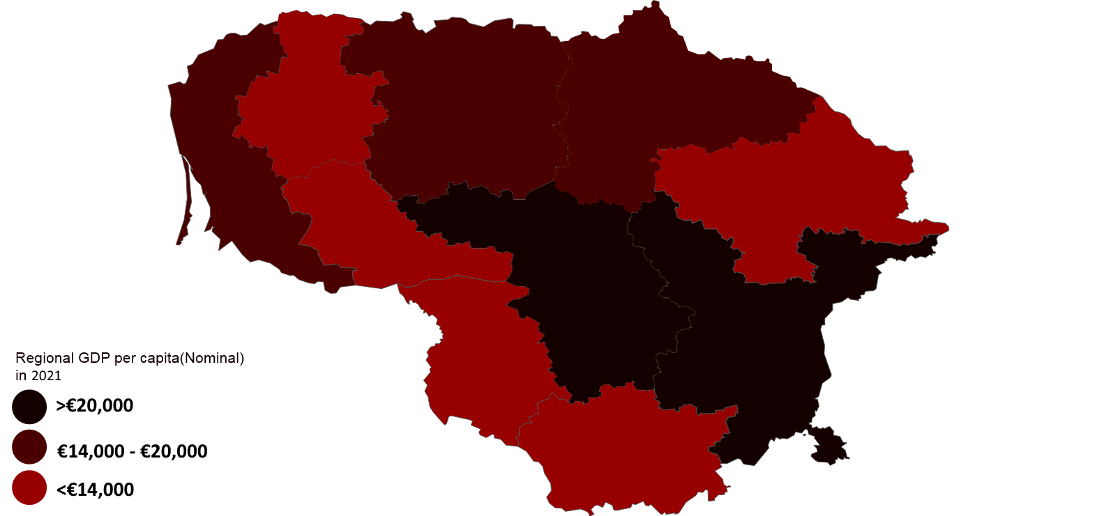 Regional GDP per capita